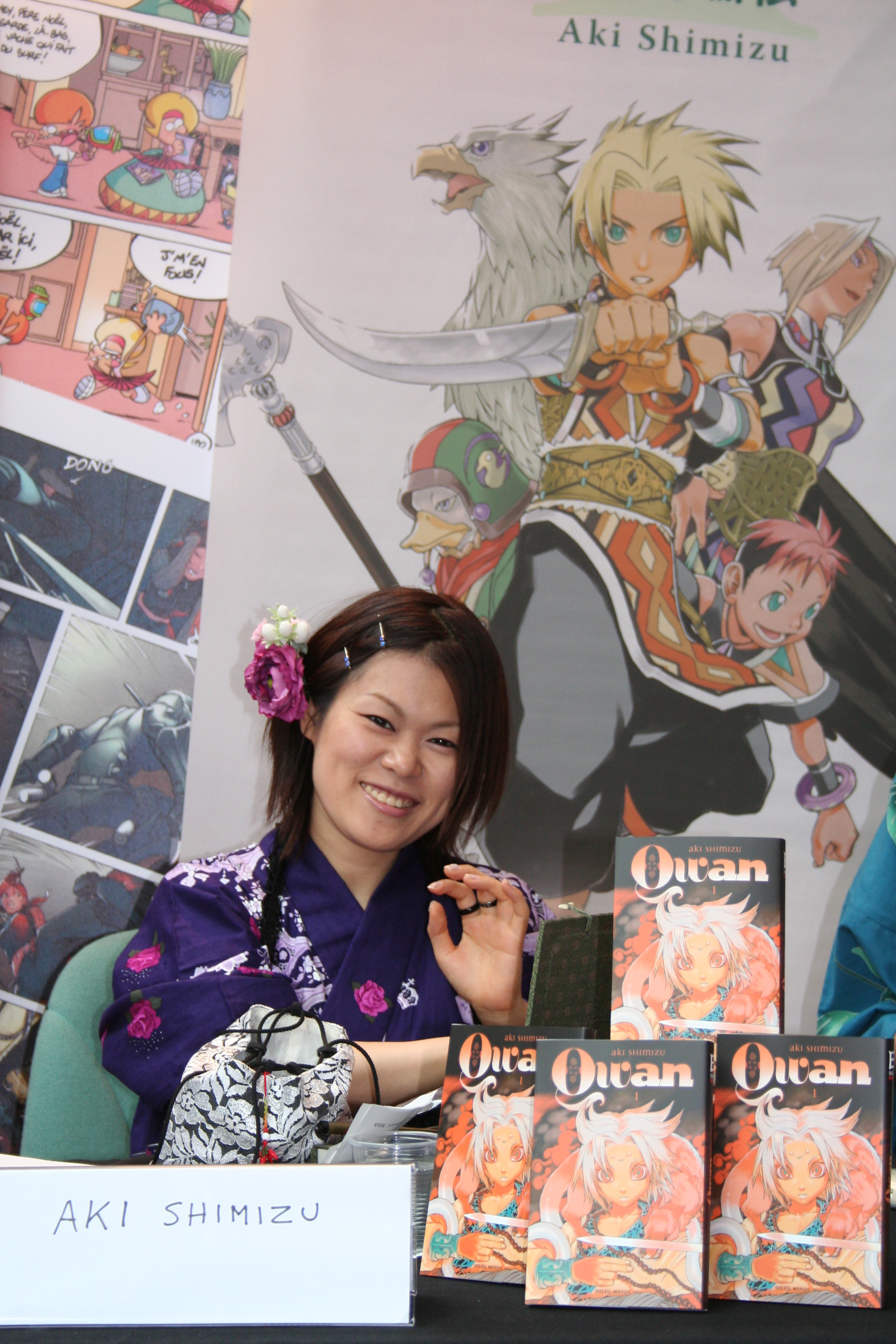 Autograph session with Aki Shimizu at Japan Expo 2006 (Paris, France).